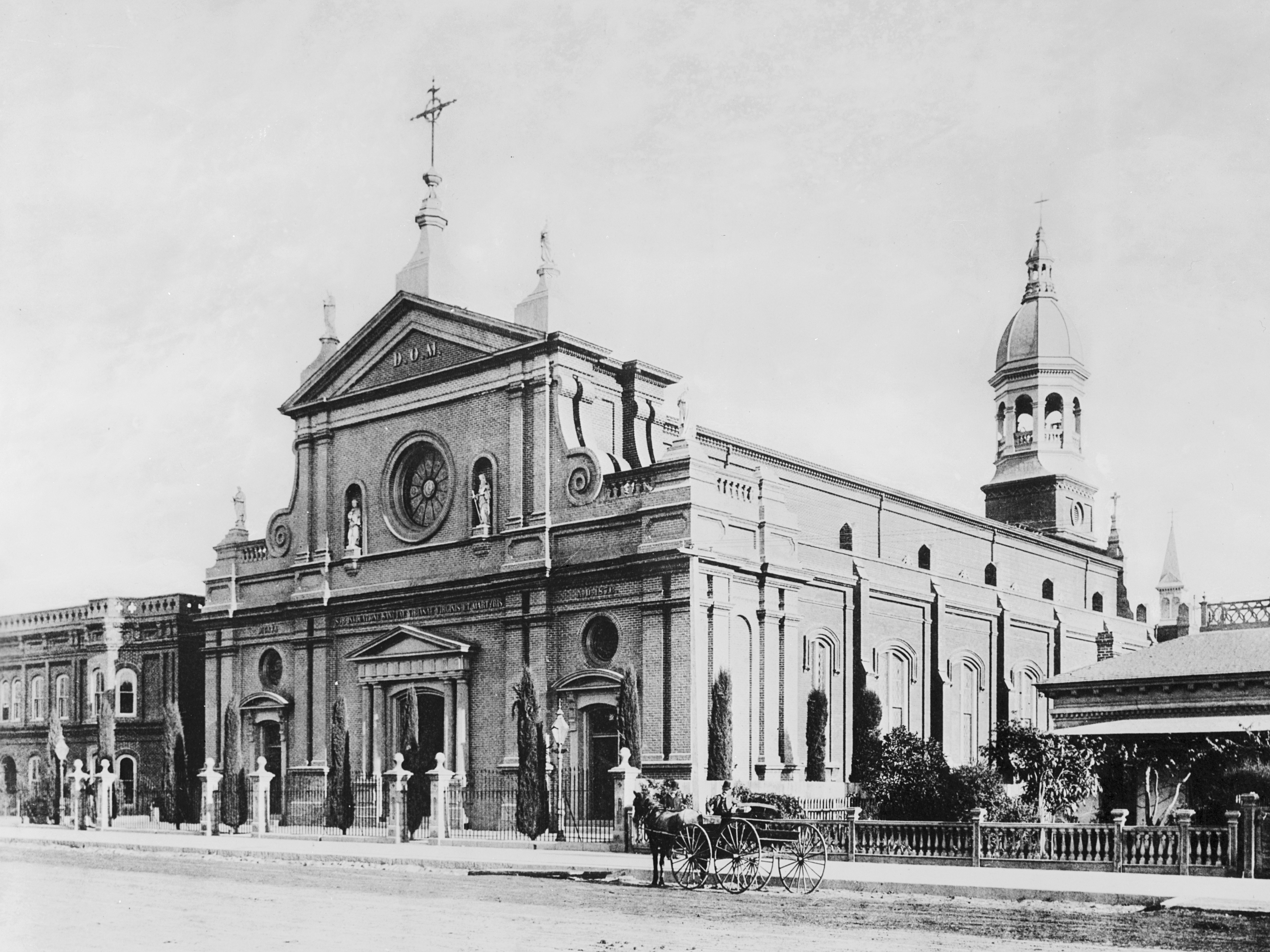 Cathedral of St. Vibiana, with Baroque Revival style facade — on Main Street at Second Street, in Downtown Los Angeles, California. c.1888 image: HABS—Historic American Buildings Survey in Los Angeles, California.